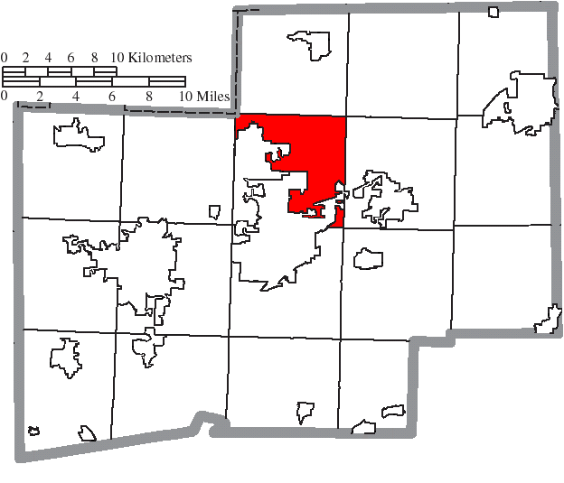 Map of the municipal and township boundaries of Stark County, Ohio, United States, as of the 2000 census, with the location of Plain Township highlighted. Township borders are shown only in unincorporated areas in order to differentiate incorporated and unincorporated areas more clearly.